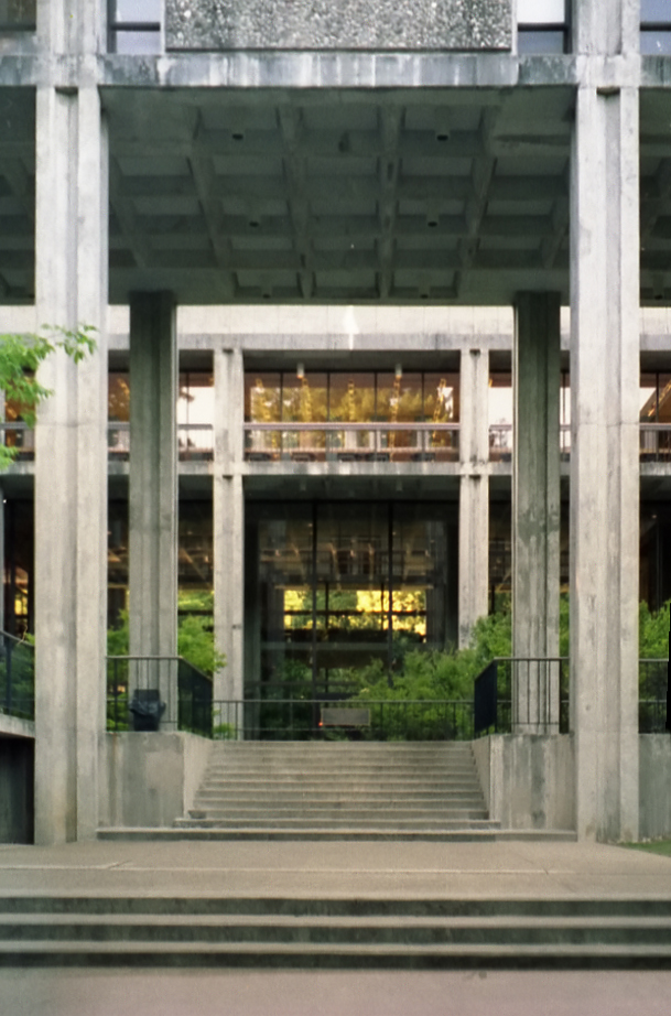 Author : Don Fulano Source : [1] Date : June 23, 2005 Location : University of California Description : UCSC's McHenry Library